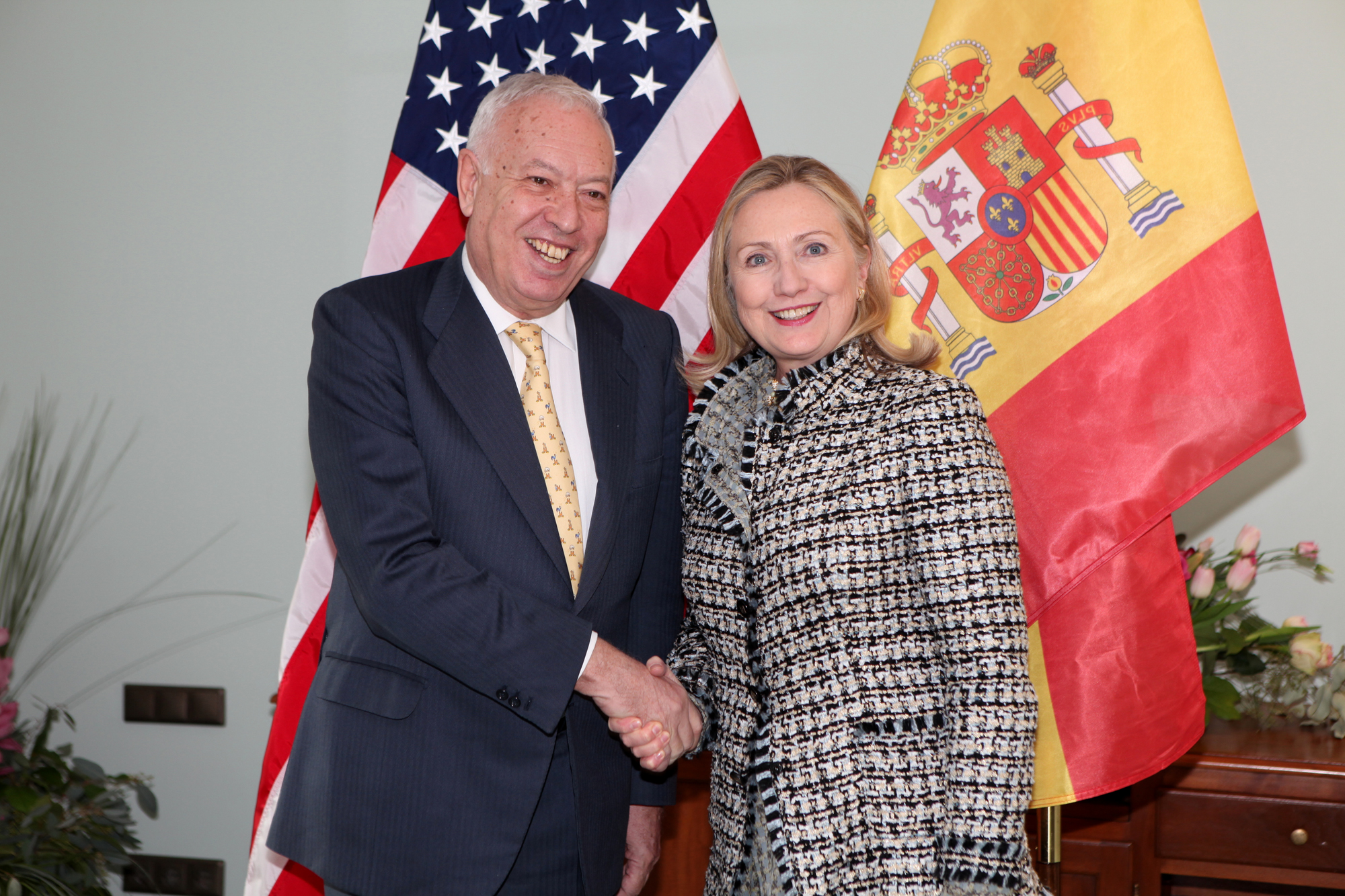 U.S. Secretary of State Hillary Rodham Clinton meets with Spanish Foreign Minister José Garcia-Margallo in Munich, Germany, on February 4, 2012. [State Department photo/ Public Domain]